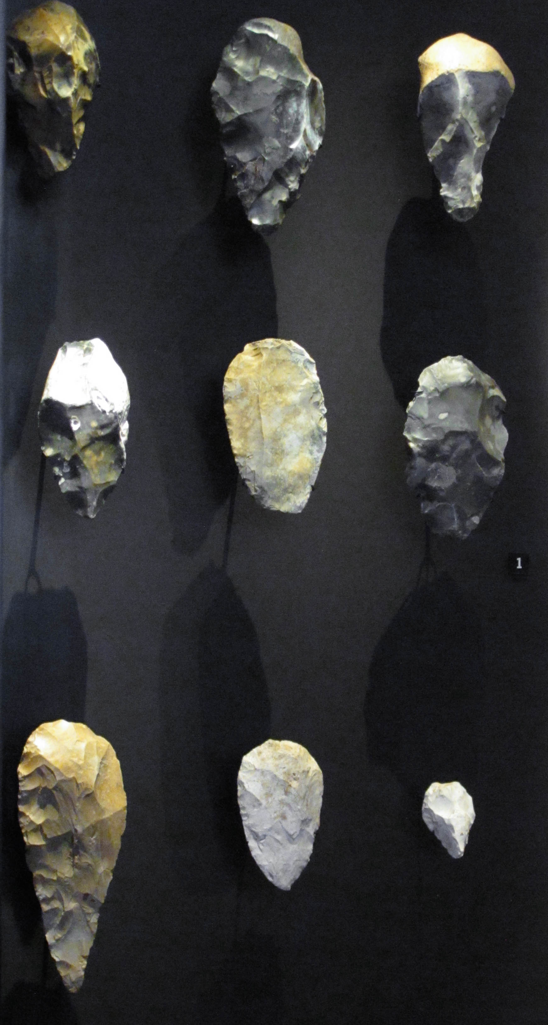 Hand axes and hand axe-like implements. Flint, 15 - 9 cm.. Acheulean industry, Lower Palaeolithic, 800 000 - 300 000 BP. Abbeville, St. Acheul, Somme, France